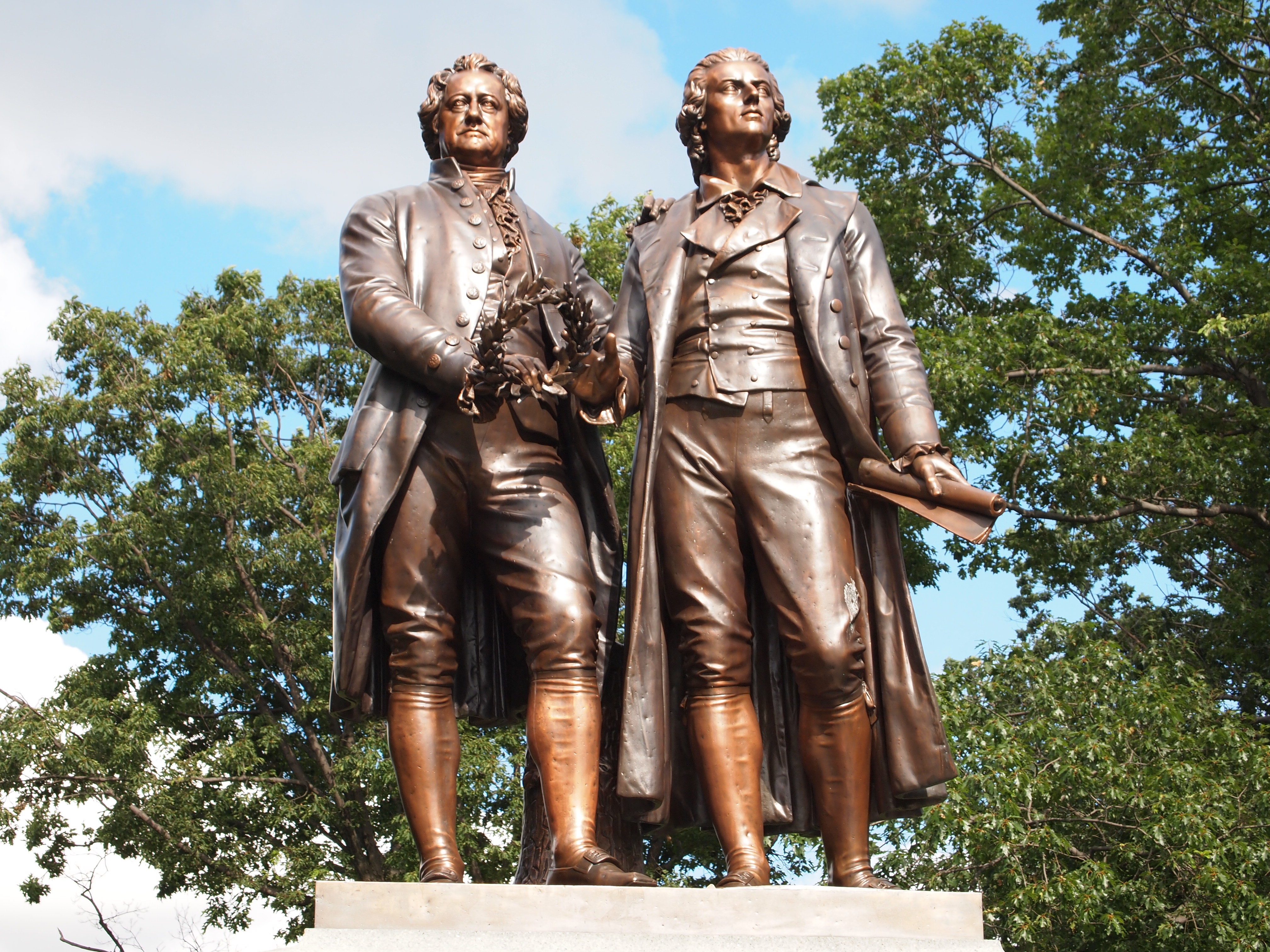 Photograph of the Goethe–Schiller Monument in Syracuse, New York (1911). Goethe is at the reader's left; he holds a laurel wreath in his own right hand, and is resting his left hand lightly on Schiller's shoulder. Schiller, to the reader's right, is grasping a scroll of writing paper in his own left hand. His right hand is open and extended slightly towards the wreath. Goethe is in the formal dress from the statue's era; Schiller is in ordinary attire. The statue is based on Ernst Rietschel's model that was first used to cast the statue for the Goethe–Schiller Monument (1857) in Weimar, Germany. The Syracuse statue has a small plaque on its base marked "Galvanoplastik - Geislingen St.", which identifies it as an electrotyped copper statue produced by the Abteilung für Galvanoplastik of the WMF Company in Geislingen an der Steige, Germany. The monument was restored in 2003; Sharon BuMann did the restoration of the statue itself. [1][2]